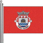 Crest of Fornotelheiro (Portugal)